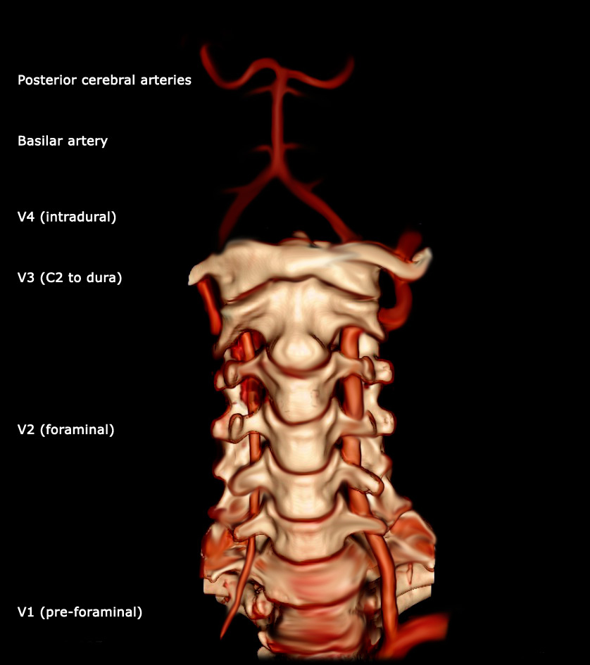 Vertebral artery based on 3d surface rendered CTA.